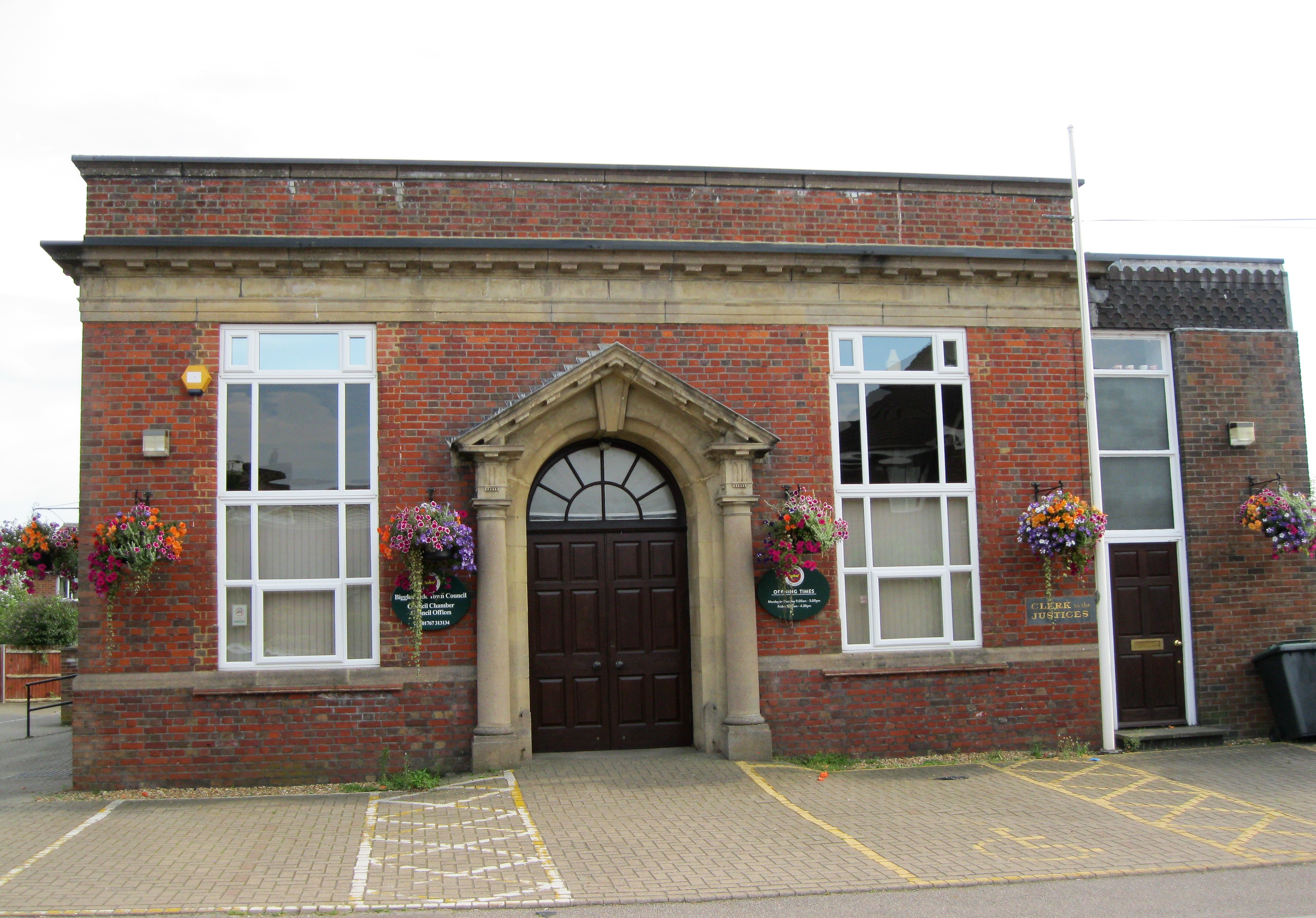 Biggleswade Town Council offices in former magistrates' court